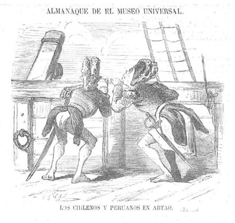 File:Chile-Peru-España-1865.png Fuente: El Museo Universal. N° 48, Año X; 02-12-1866. Pág. 384.